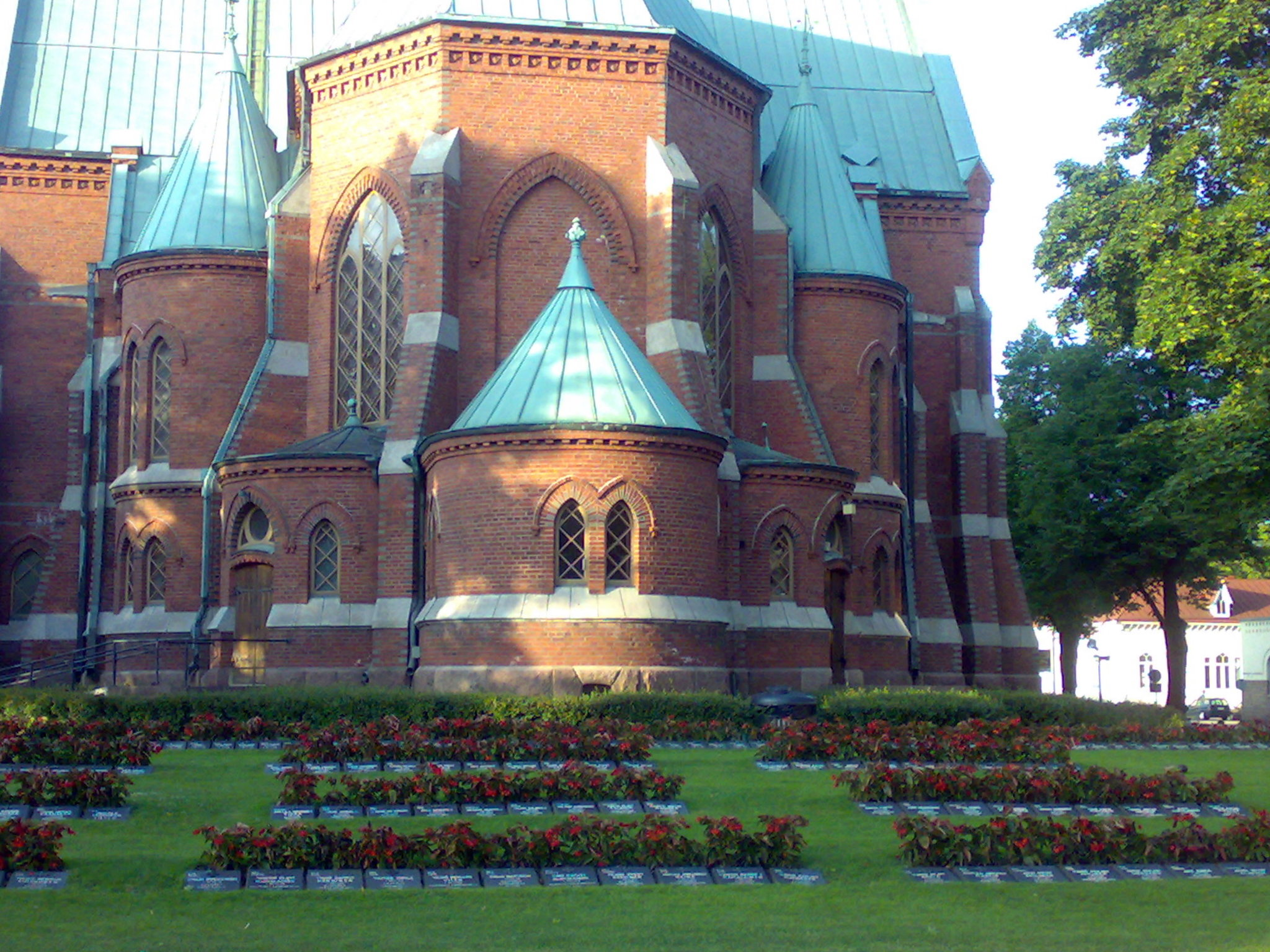 Military cemetary at church in Kotka, Finland